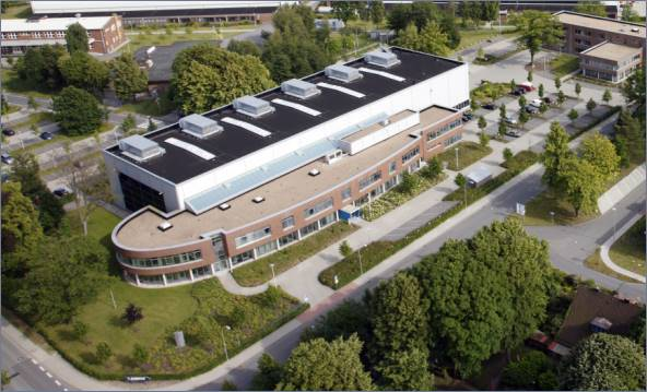 CTC GmbH - Top View